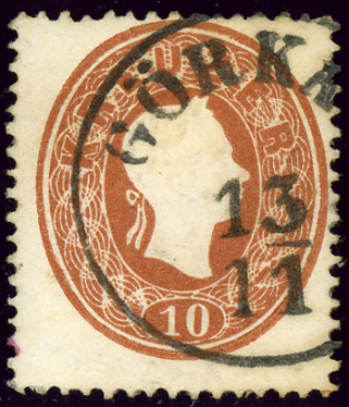 Austrian KK stamp, 10 kreuzer, issue 1861, cancelled at GÖRKAU, Bohemia